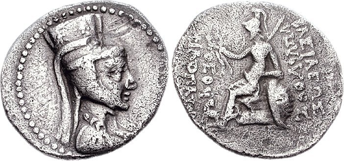 Coin of Ariarathes VI, Ariarathid king of Cappadocia.